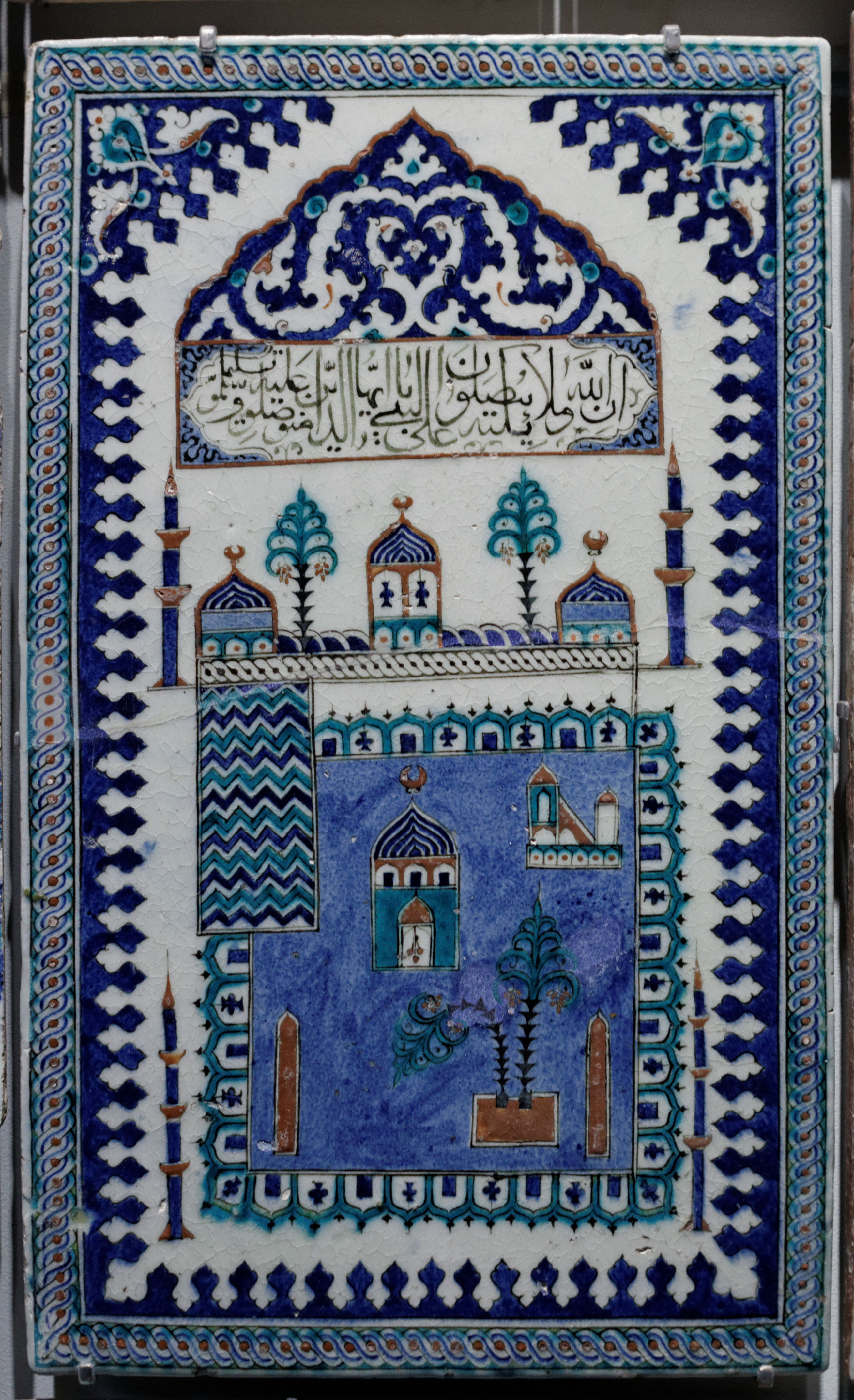 Panel representing the mosque of Medina (now in Saudi Arabia). Composite body, silicate coat, transparent glaze, underglaze painted.